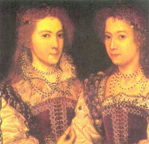 Dorothy and Penelope Devereux, daughters of Lettice Knollys, Countess of Essex